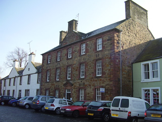 Haddington - 'The New Grammar School' Opened in 1755 this was the third grammar in Haddington. English and Mathematics schools were co-joined to the main school in the early 19th century. The schools here closed and move to the Knox Institute in 1879. The old schools are situated in Church Street opposite the Holy Trinity Church.